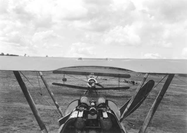 France. June 1918. The pilot's view from a Sopwith Camel aircraft, a type of fighting scout machine much in use by the Australian Flying Corps (AFC) . Note 'A' on starboard upper wing panel. See Cobby's High Adventure (1981) [1942], Melbourne: Kookaburra Technical Publications, ISBN 0858800446, for photographs showing how this image was taken.